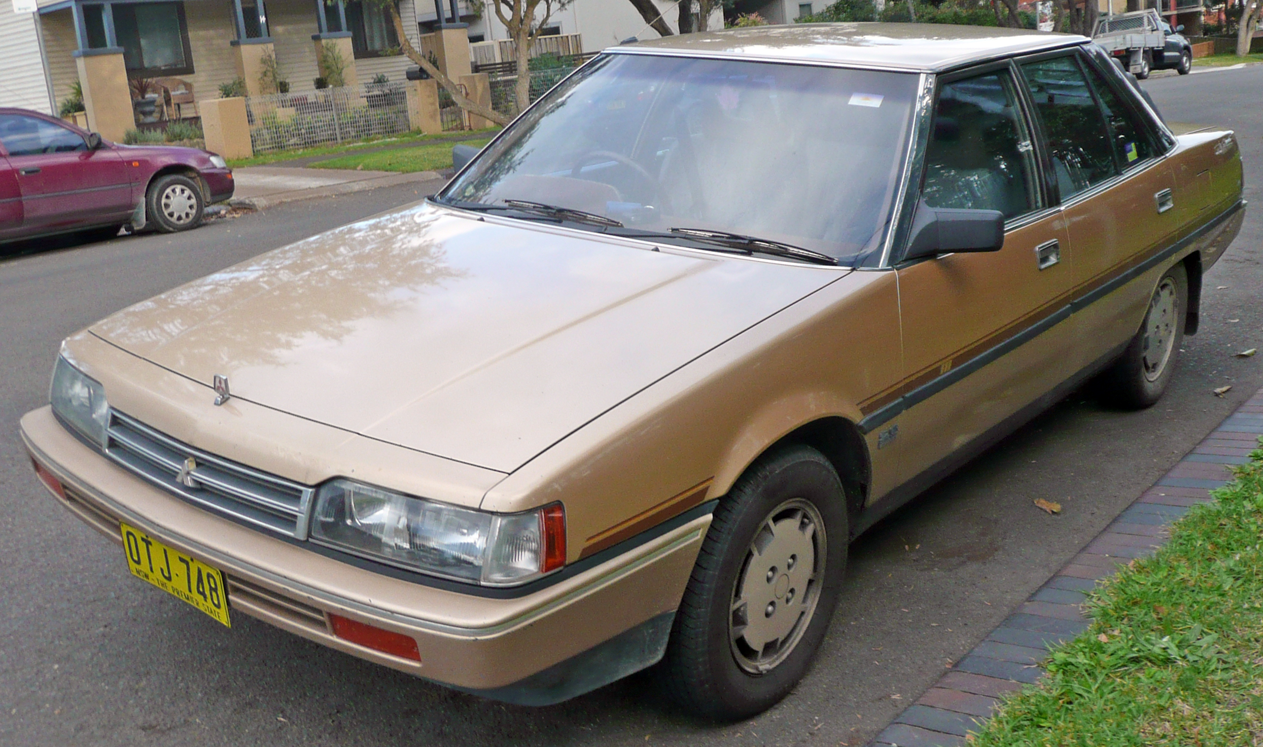 1985 Mitsubishi Magna (TM) SE sedan. Photographed in Sutherland, New South Wales, Australia. Note: this SE trim is fitted with the alloy wheels from the TM series Elite.